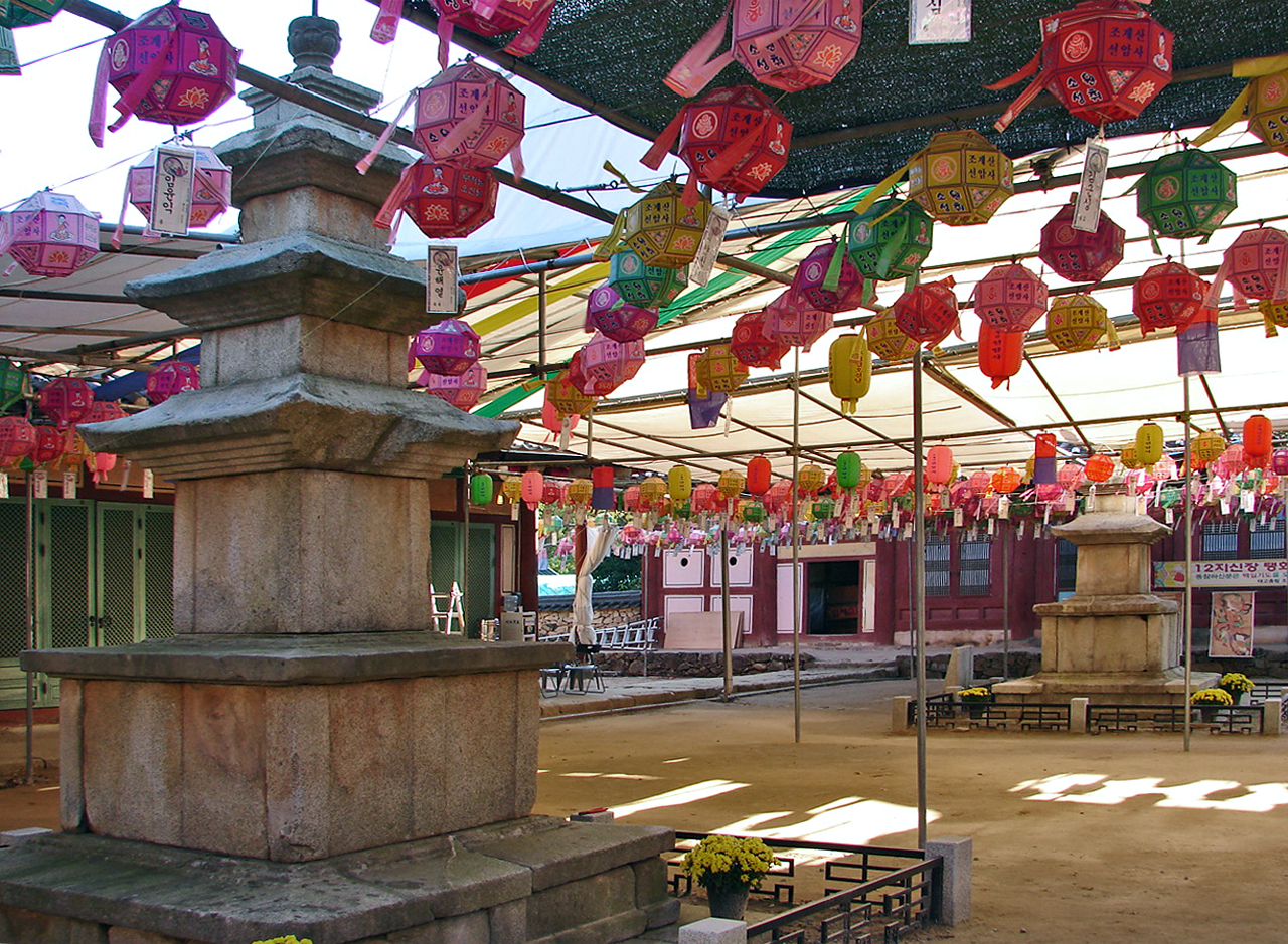 The Three Storied Stone Pagodas at Seonamsa are typical of the stone pagodas of the Silla era from the 9th century that enshrine the saria of Buddha. The main body of the pagodas and roof stones are cut from a single piece of stone with a double styobase with three pillars carved in relief. Each side of the body is carved with two simple pillars. The roof stones are flat and broad with four layered support with lifted corners. Three Storied Stone Pagodas at Seonamsa have been designated as National Treasure No. 395.